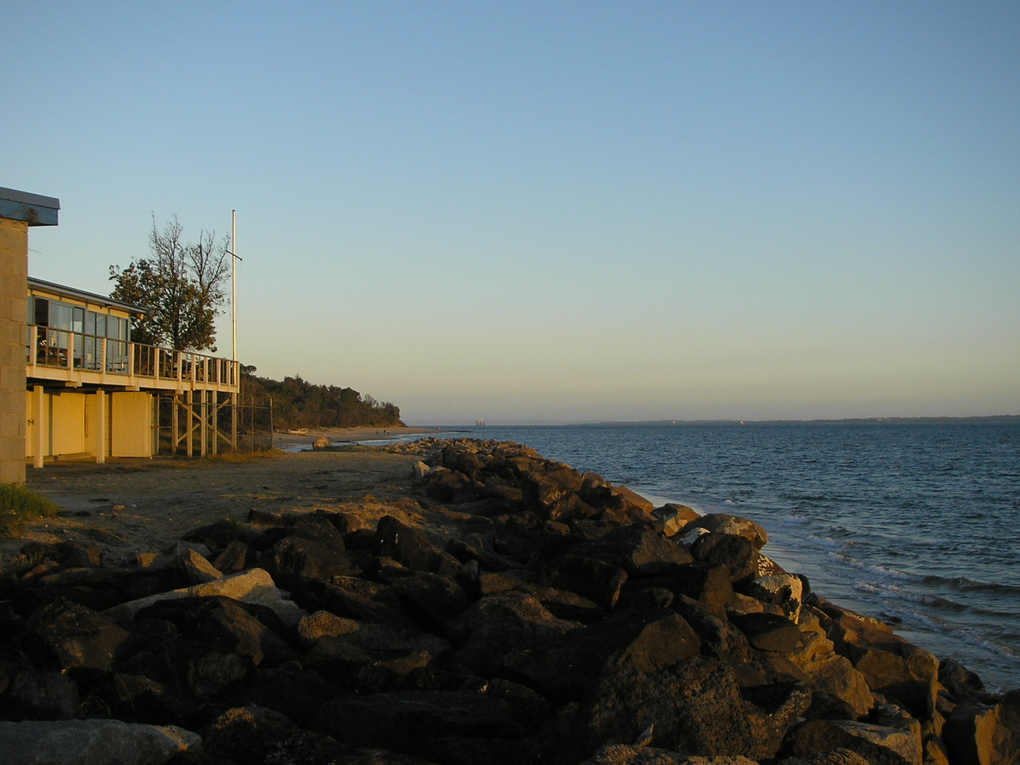 Photograph taken by Nick Carson